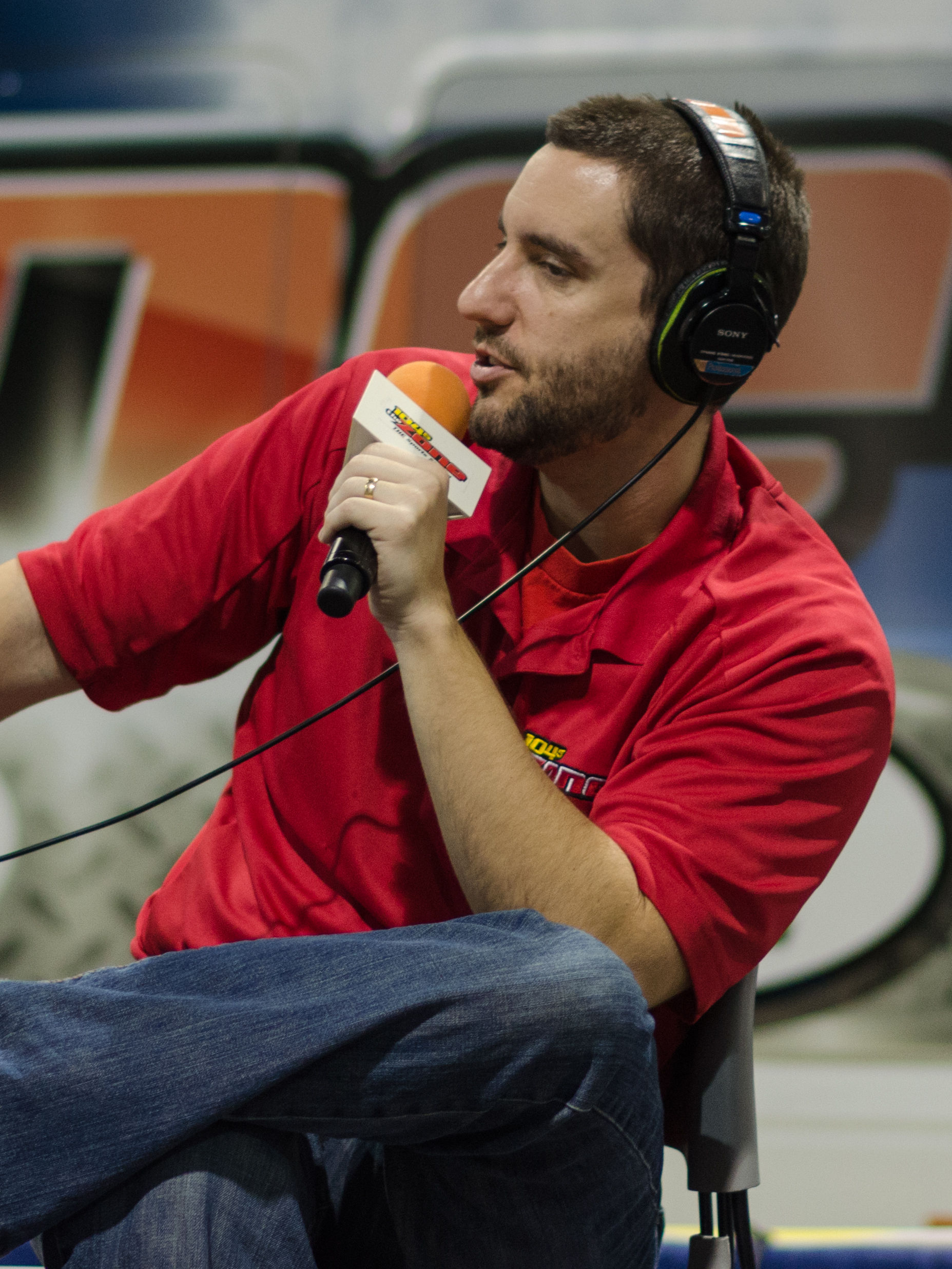 Clay Travis at SportsFest in Nashville, TN, USA 2013-02-23